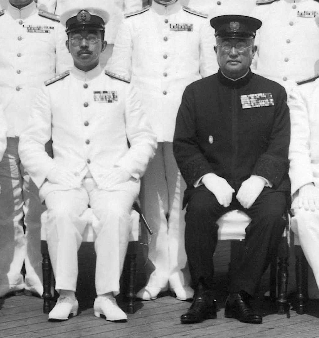 Emperor Shōwa (Hirohiro) and Imperial Household Minister Tsuneo Matsudaira aboard battleship Misashi